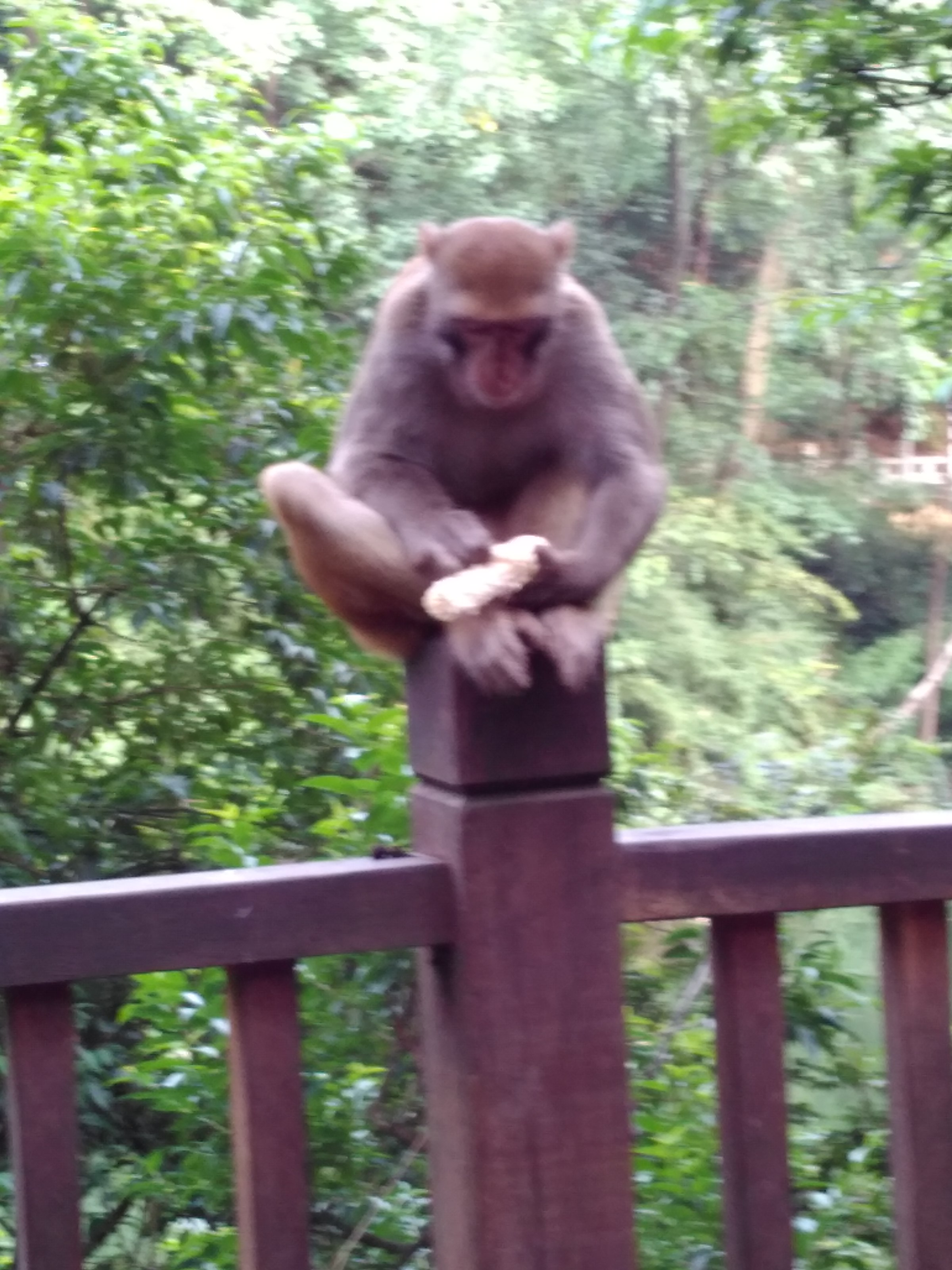 Monkey in Chianling Park